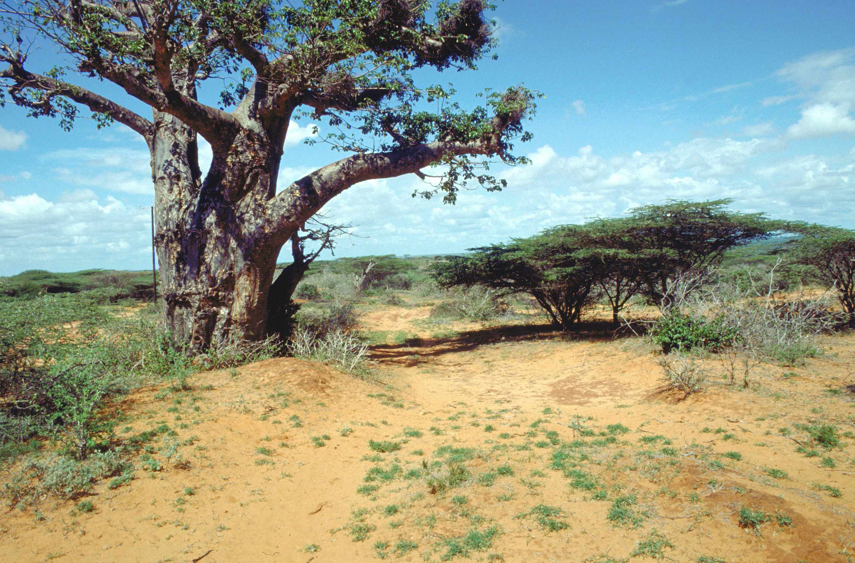 A scenic photograph of a tree near Kismayo, Somalia.